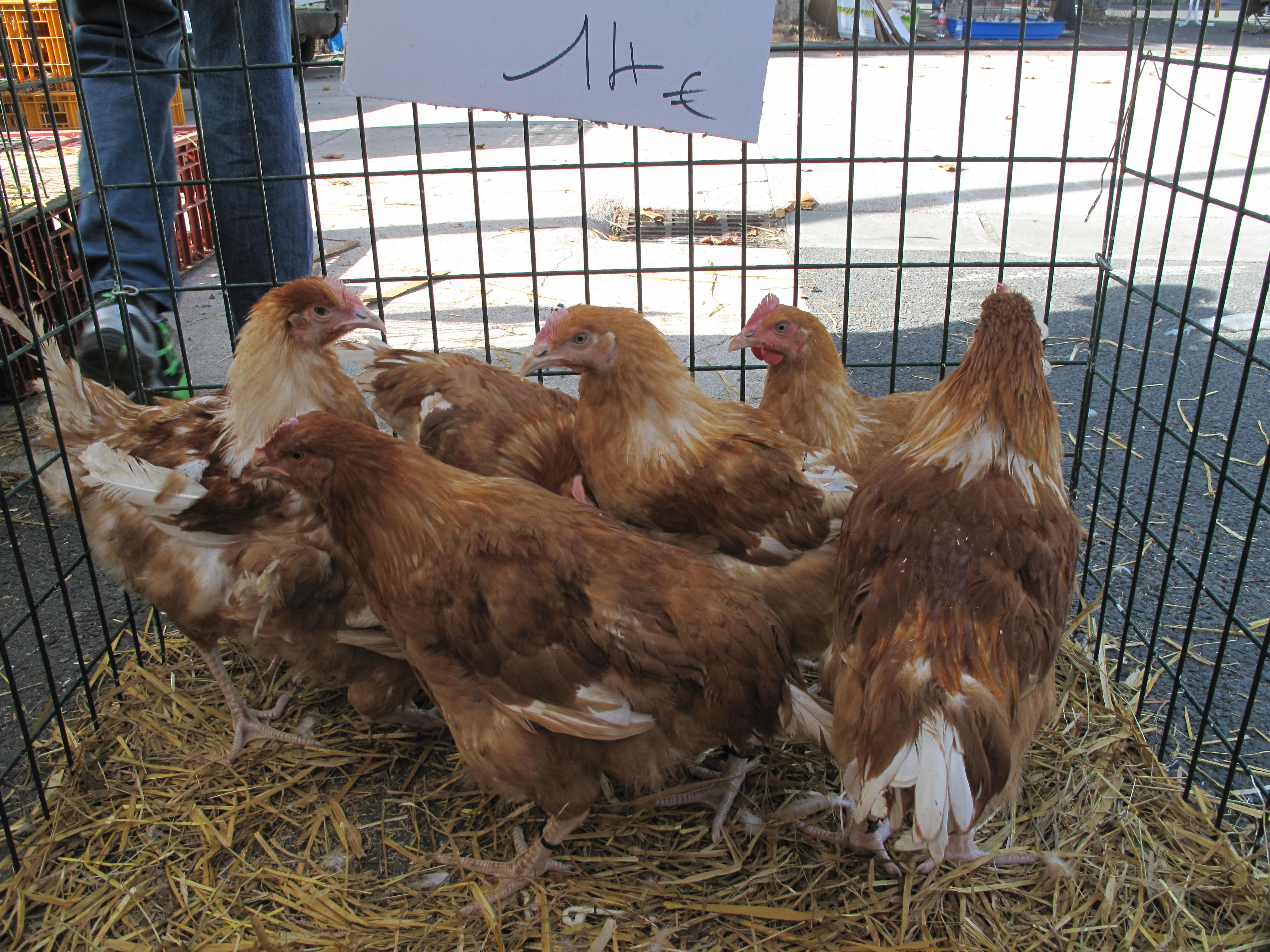 Living capons for sell at the market of Louhans (Saône-et-Loire, France). 14 Euros each.